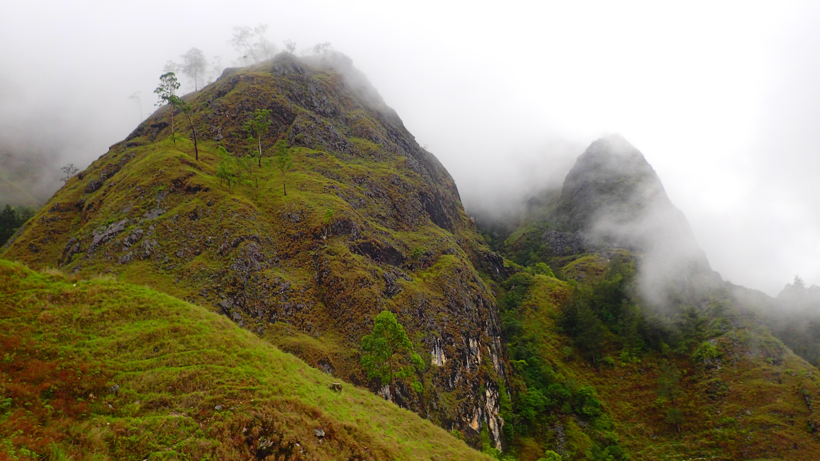 View of some part of Mount Cabalaki near Mauchiga village, Ainaro Side